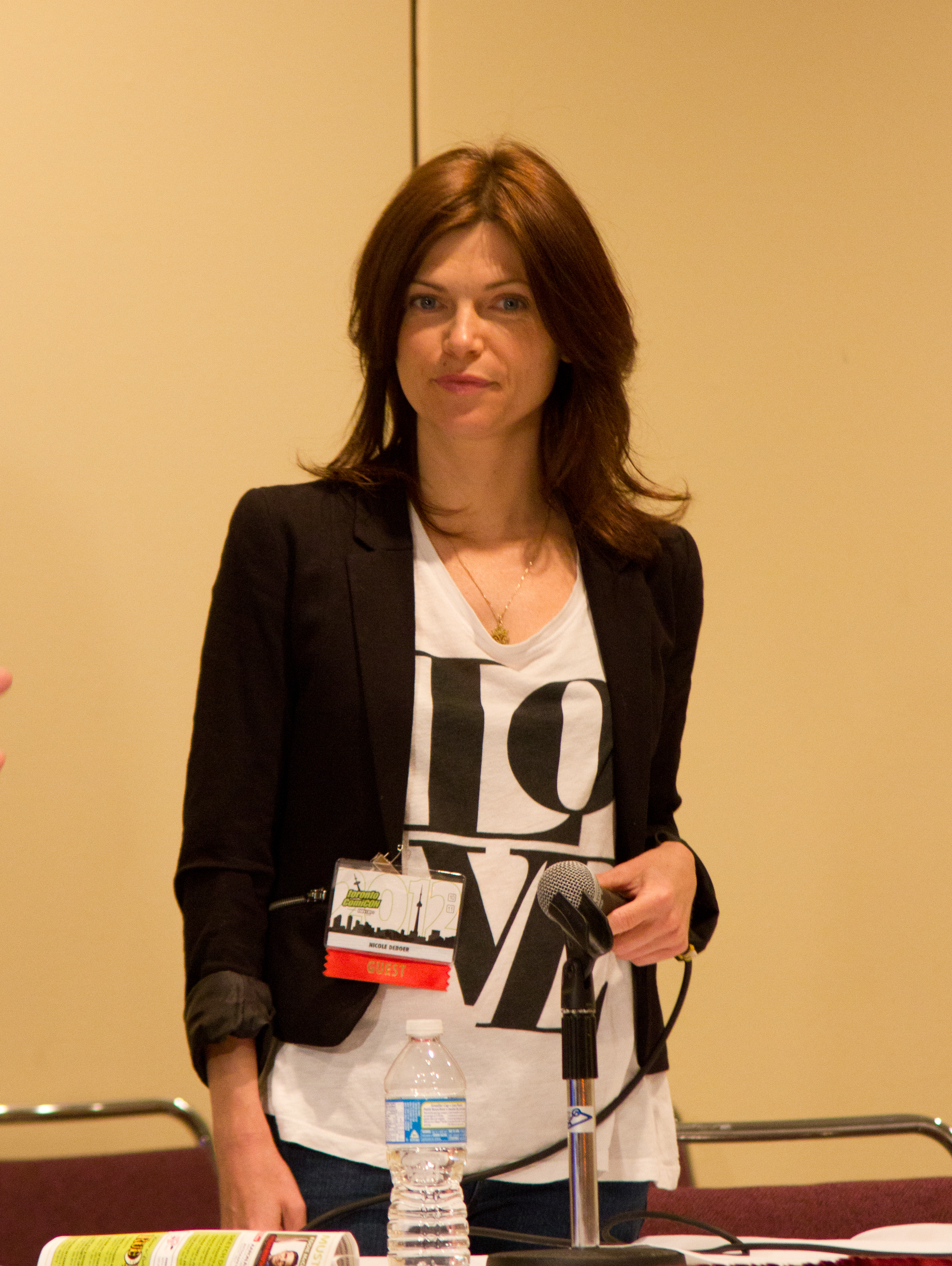 Nicole de Boer at a question and answer session at Toronto Comicon